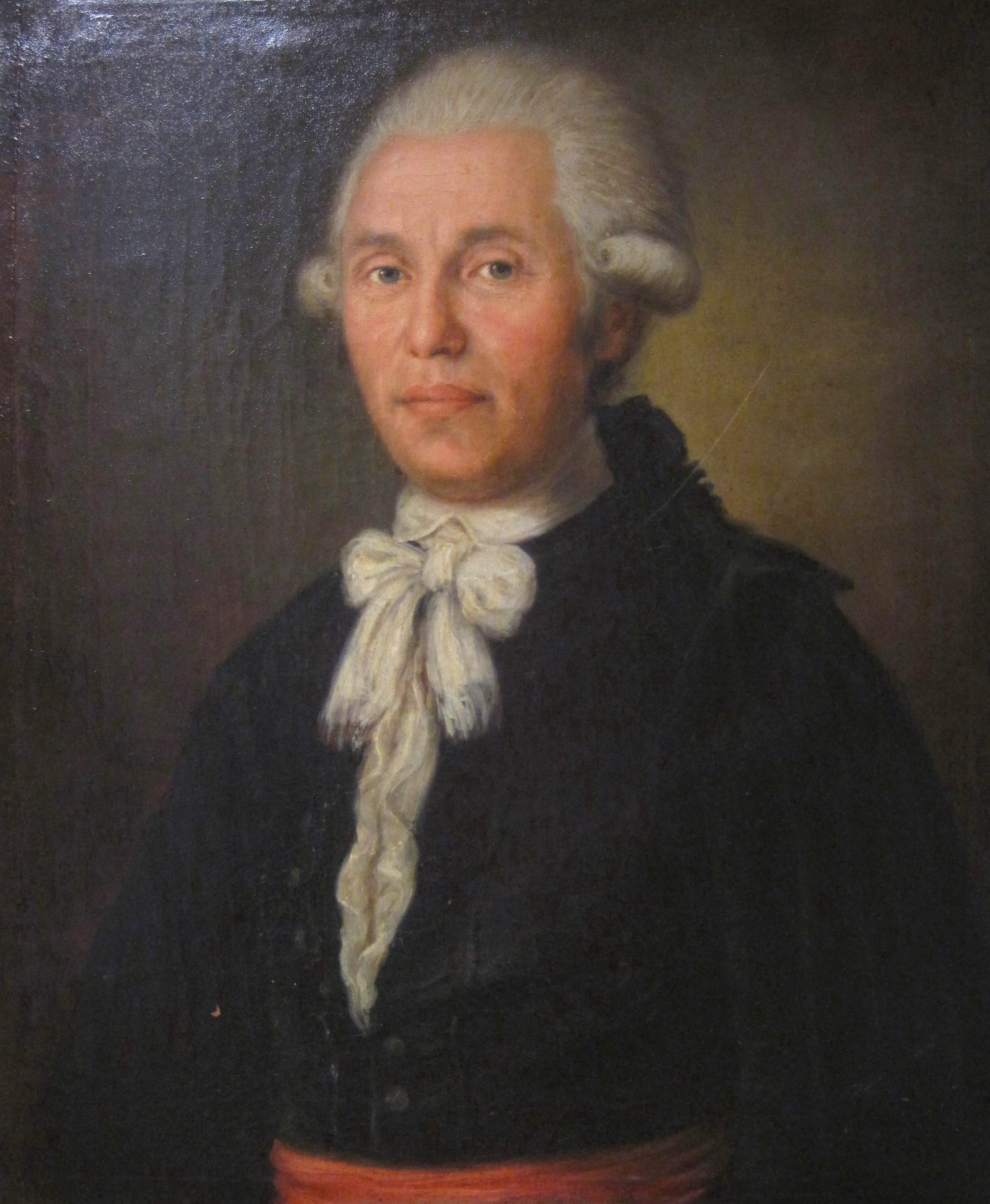 Mattias Fremling (1745-1820), professor of theoretical philosophy at Lund University.